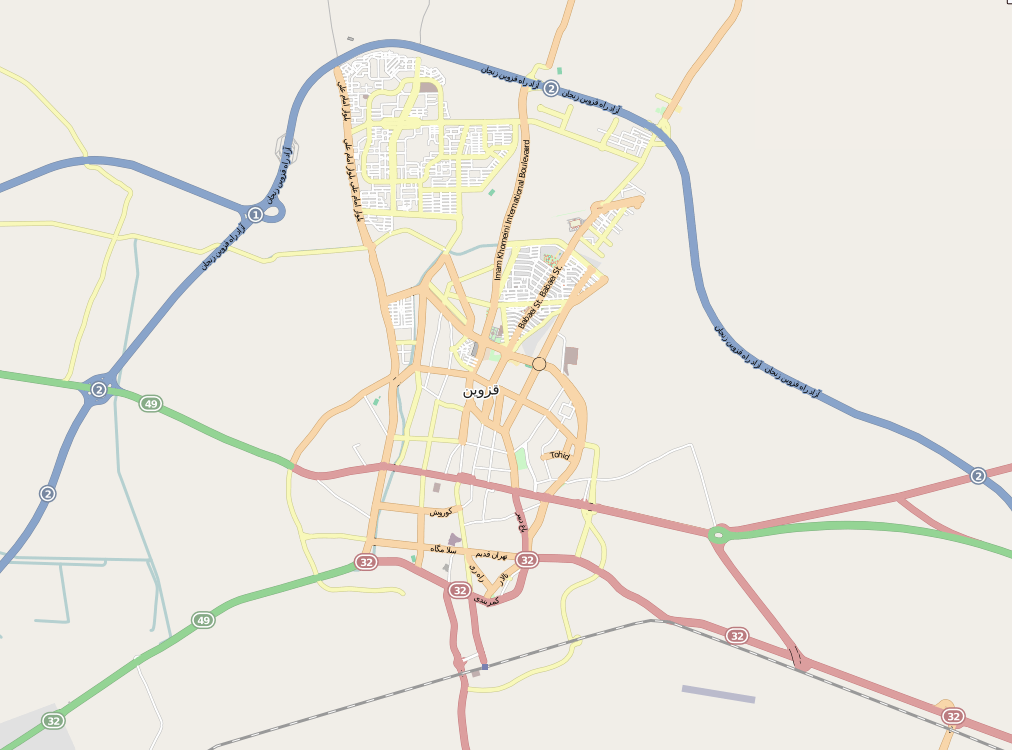 This map may be incomplete, and may contain errors. Don't rely solely on it for navigation.